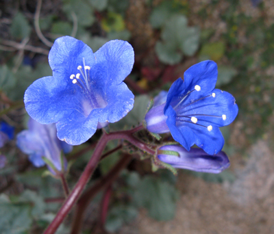 Phacelia campanularia ssp. vasiformis This image or media file contains material based on a work of a National Park Service employee, created as part of that person's official duties. As a work of the U.S. federal government, such work is in the public domain in the United States. See the NPS website and NPS copyright policy for more information.